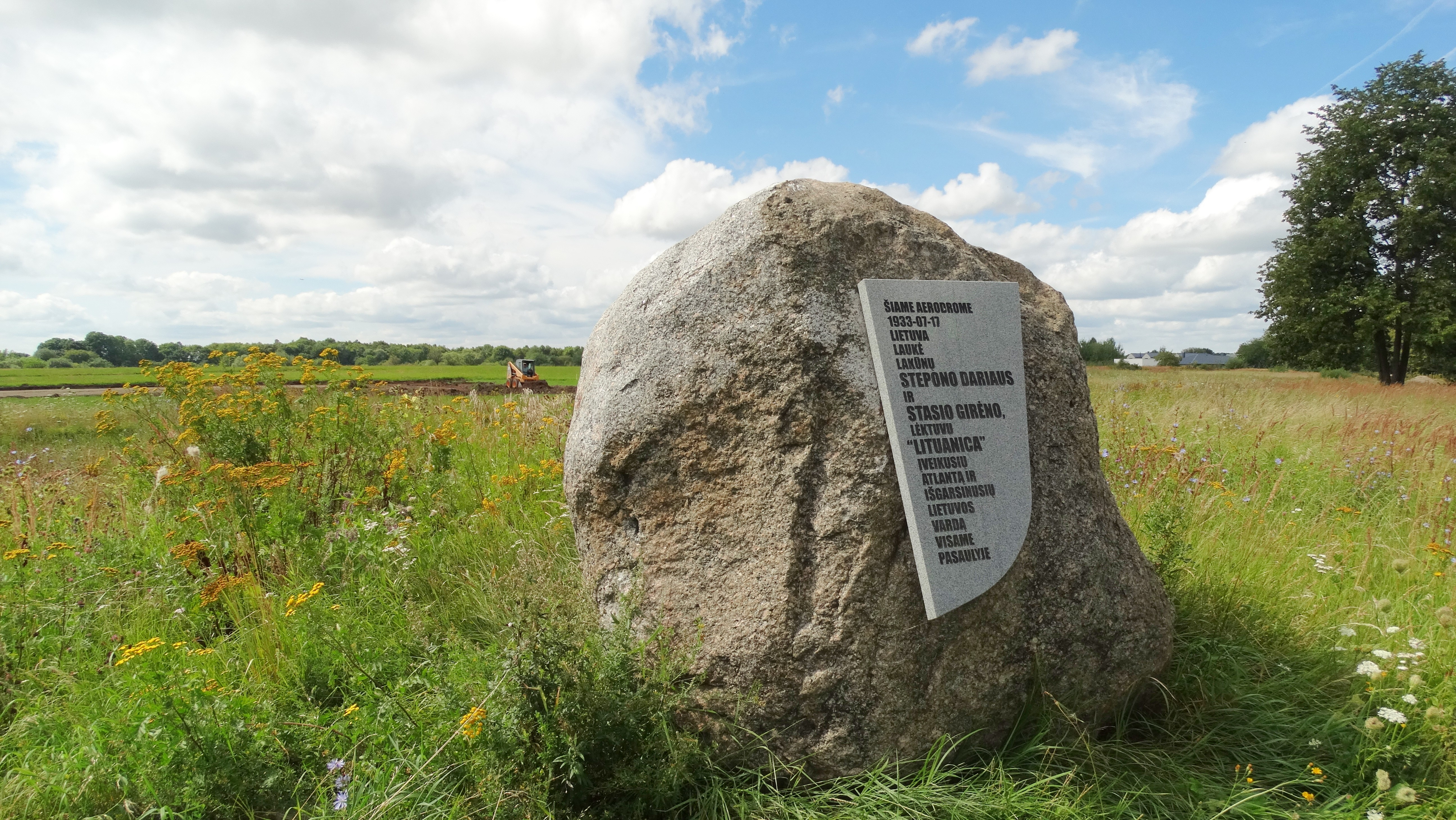 Memorial stone in Aleksotas Airport, Lithuania